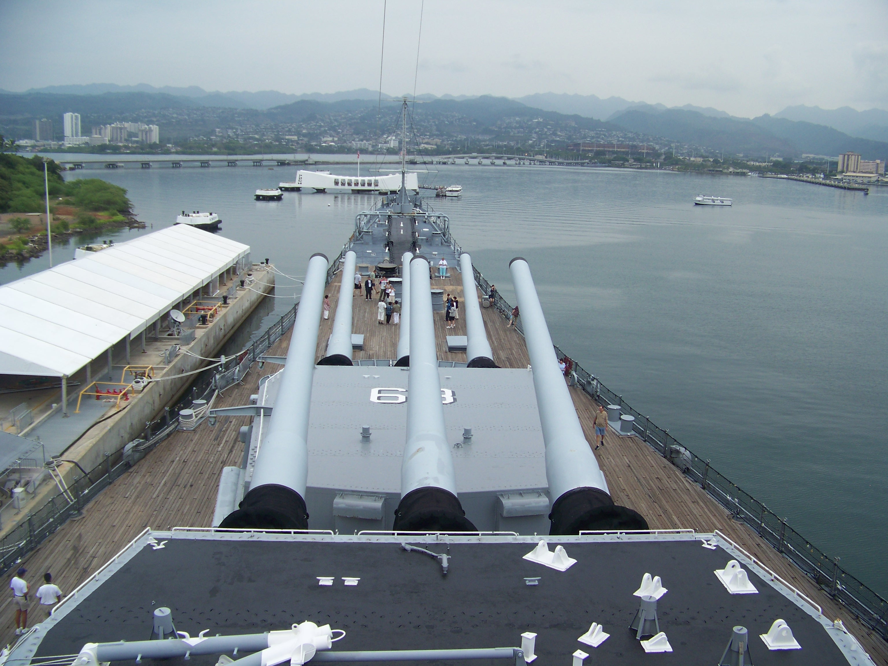 The USS Missouri (BB-63) watching over the sunken USS Arizona (BB-39) in Pearl Harbor, symbols of the beginning and the end of WWII for the USA.